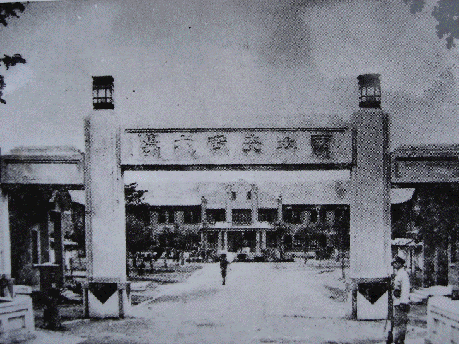 Gate of National Anhui University (An Qing)